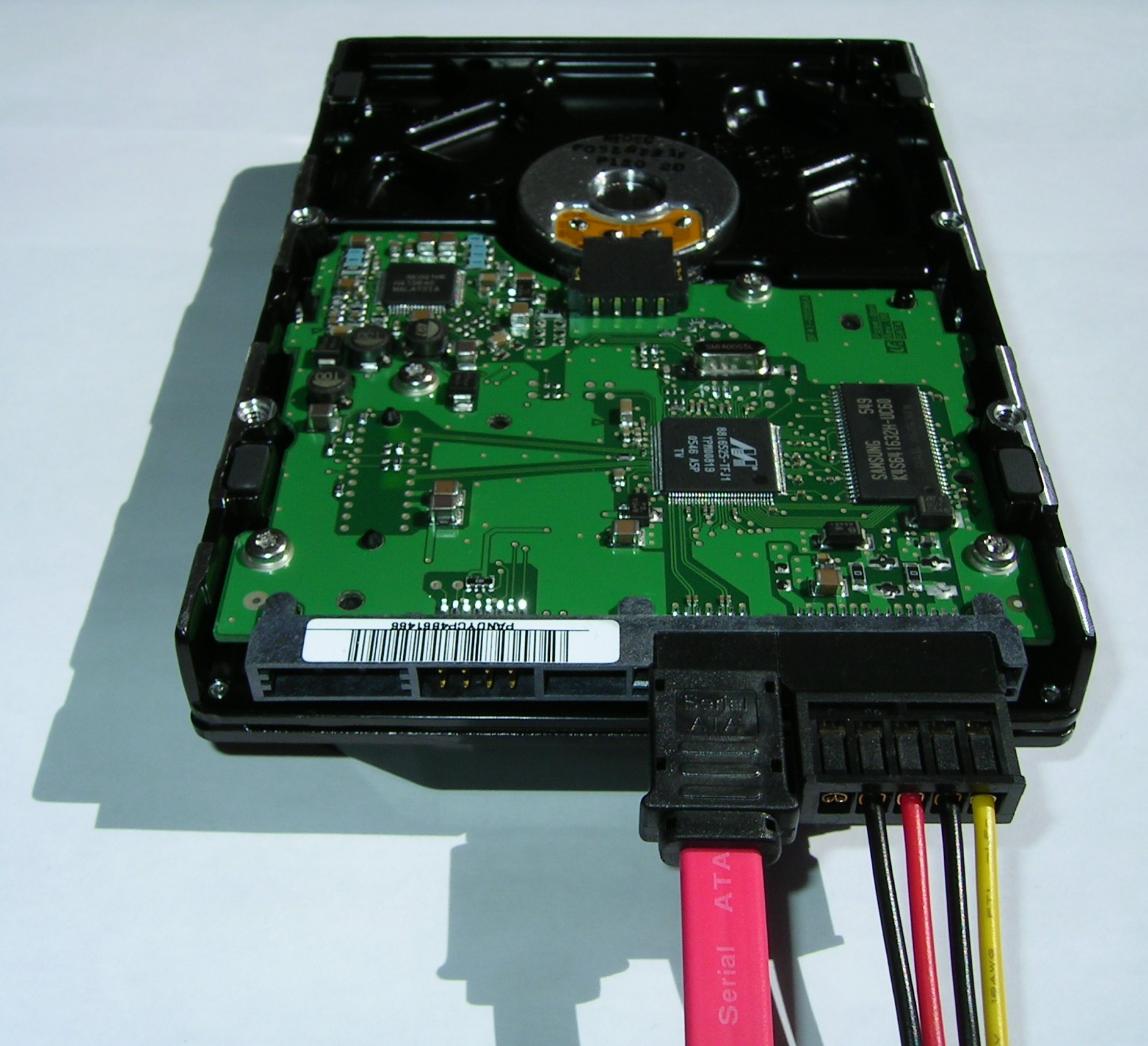 Serial ATA Hard Disk Samsung SP2504C with power and data connectors